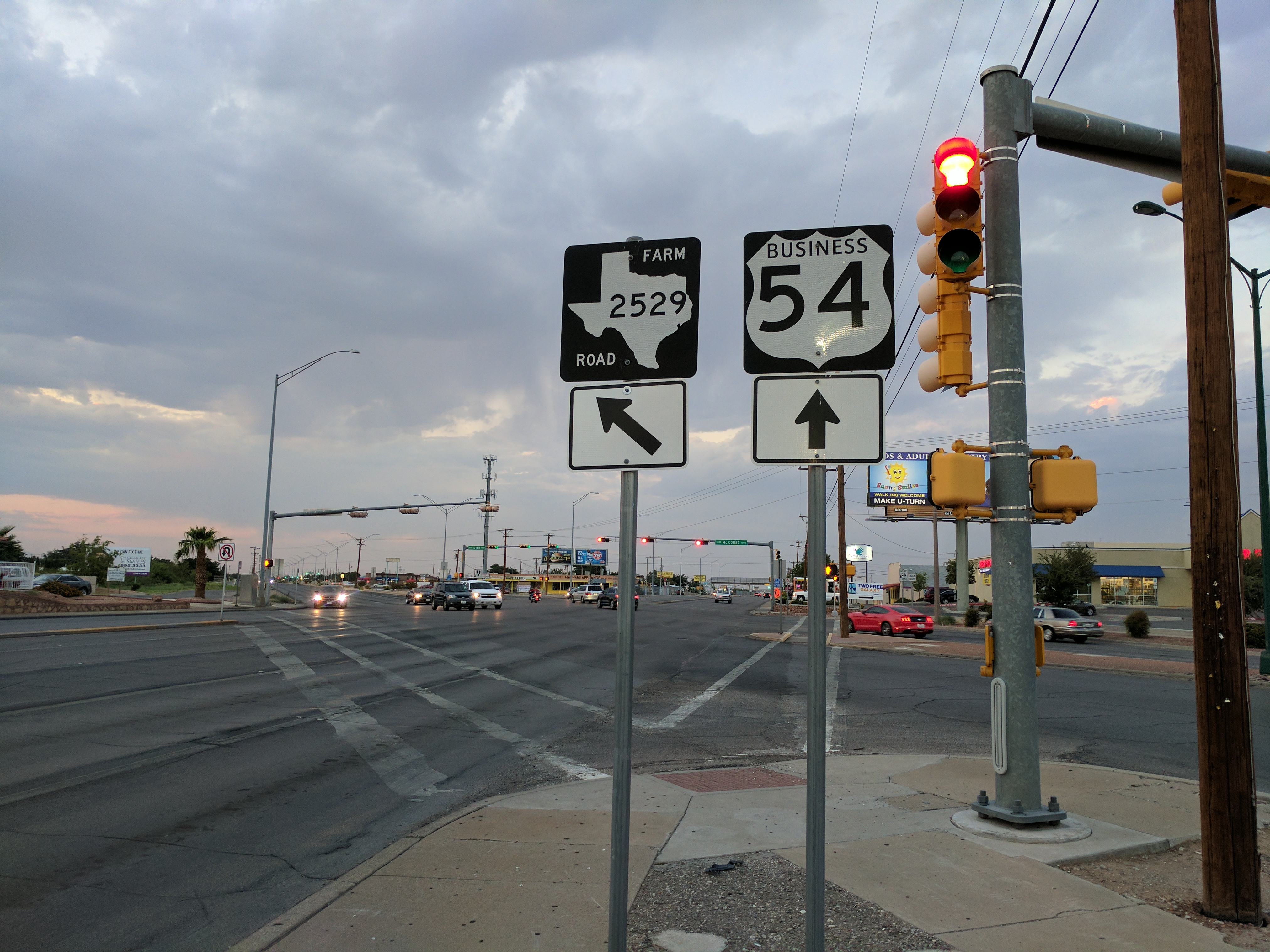 Northeast El Paso intersection at 54.